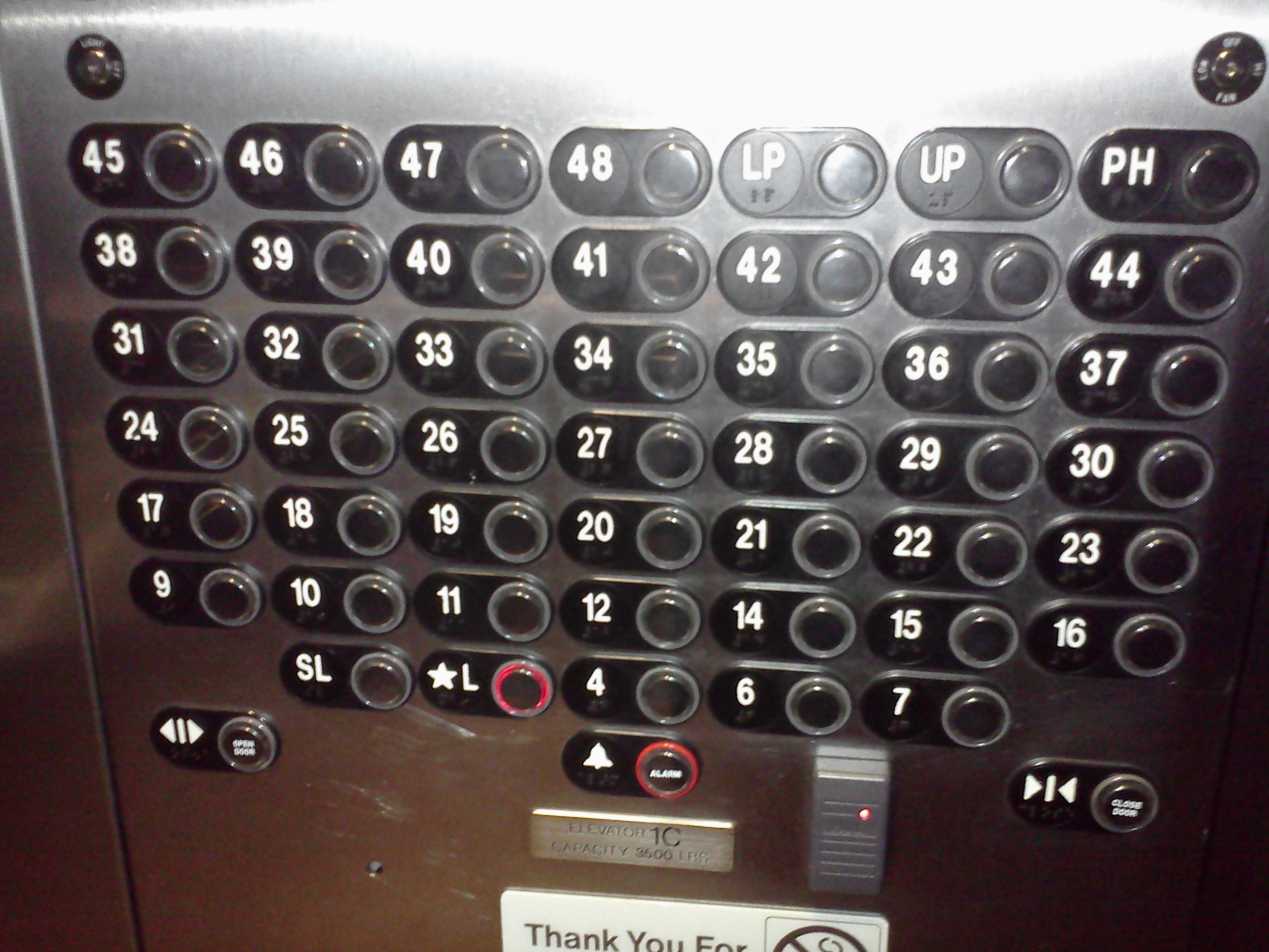 An elevator panel in a high-rise building in the United States using an apparent numbering system for it's storey levels.